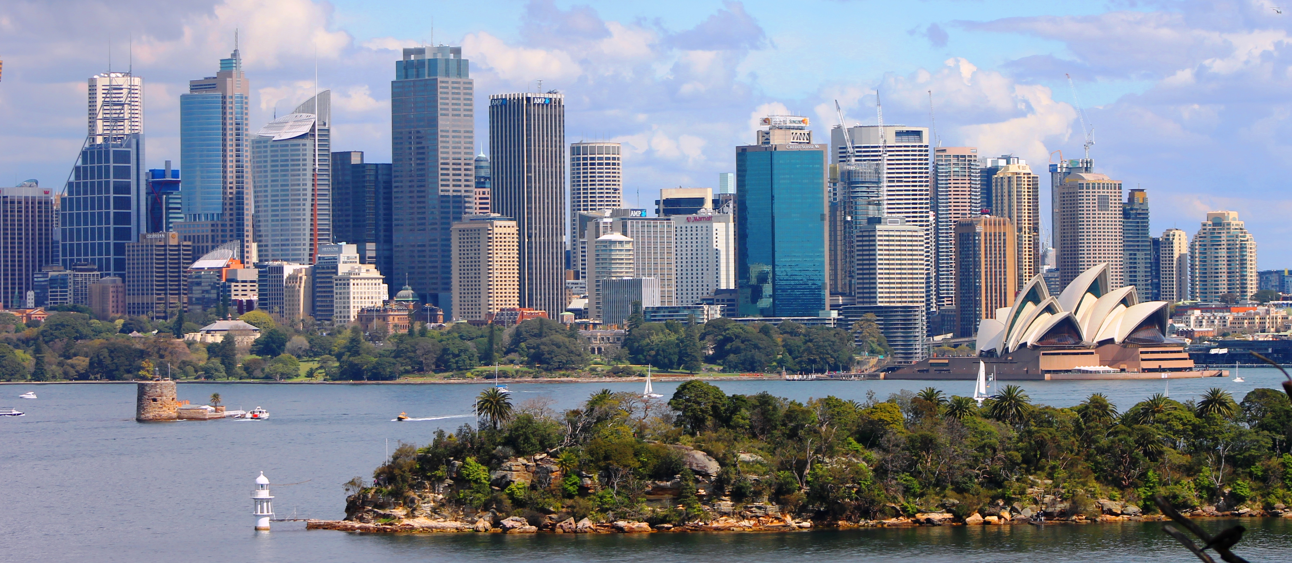 Sydney CBD skyline in September 2015